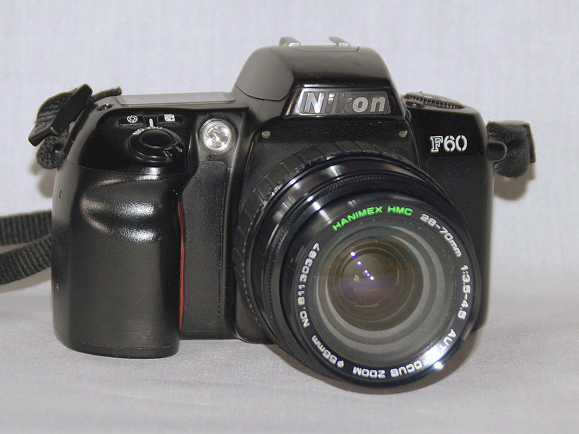 Nikon F60 film SLR in black with Hanimex 28-70mm zoom lens. Taken by Wolfgang Pehlemann.